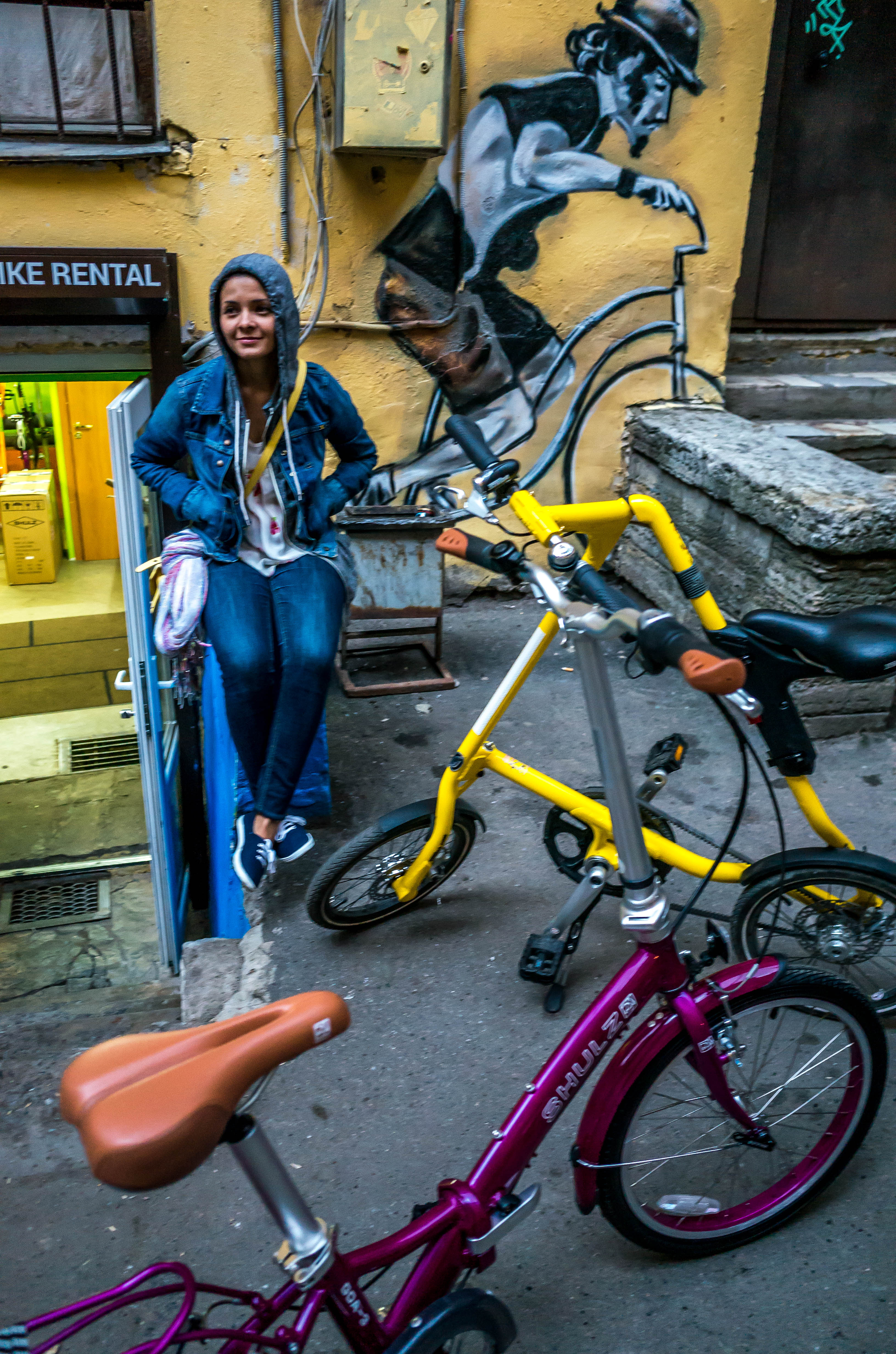 Skat Prokat Bike Shop - ready for our White Nights bike tour with Category:Strida folding bicycle